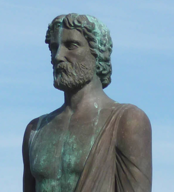 Statue of Cleobulus of Lindos outside of the city of Lindos, Rhodes, Greece